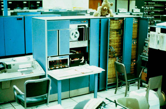 DEC PDP-8 based Data Concentrator developed by the CONCOMP project at the University of Michigan to connect terminals to the I/O channels on an IBM S/360-67 mainframe computer, circa 1971.